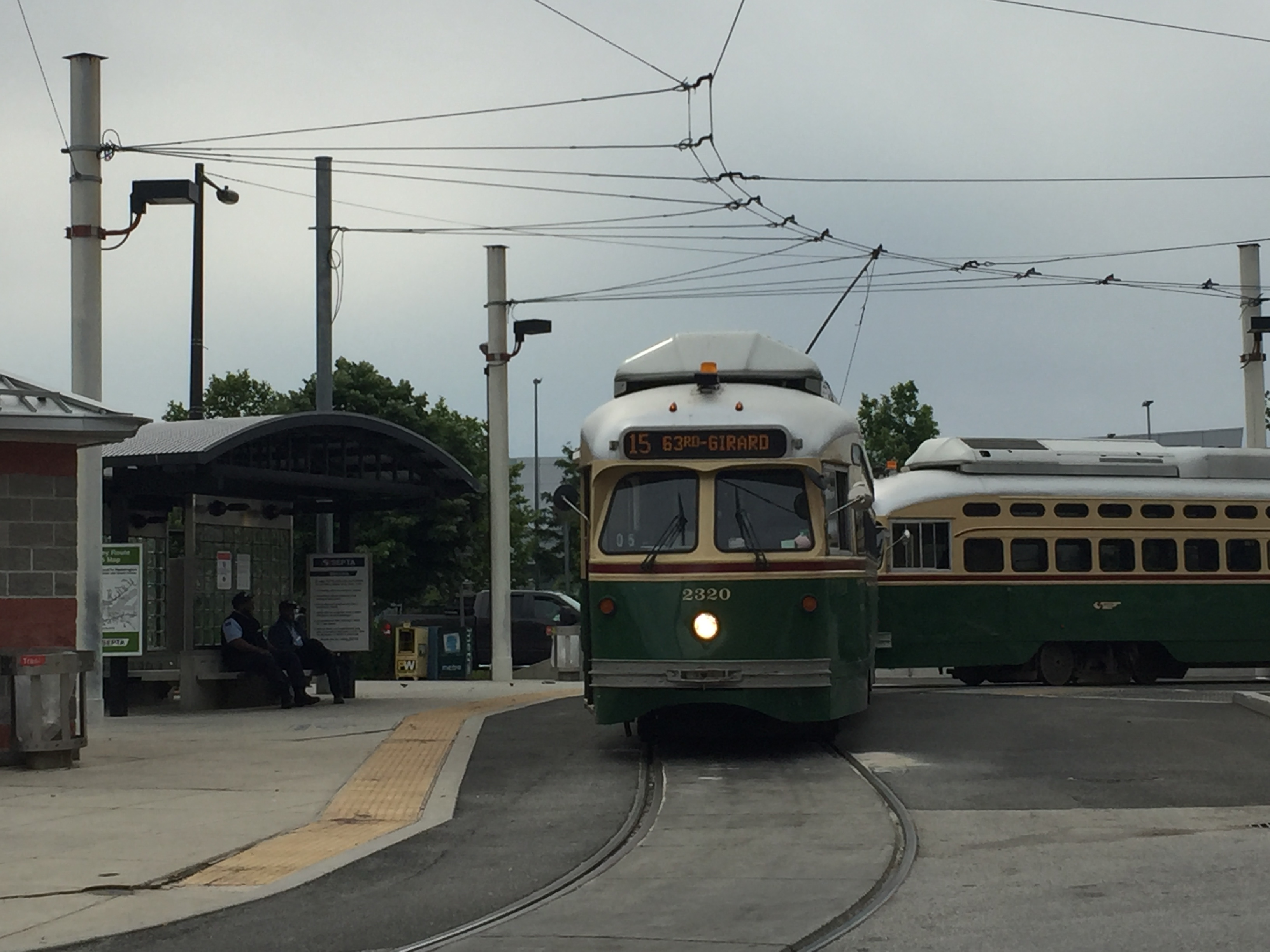 Frankford and Delaware